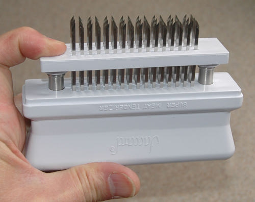 Meat tenderizer with 48 blades.